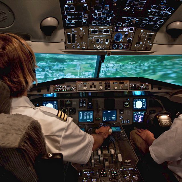 Cockpit of AXIS F70/100 Full Flight Simulator